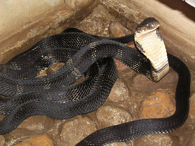 A king Cobra opening it's hood